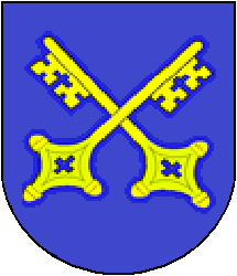 Shield of the municipality of Bourg-Saint-Pierre, Canton of Valais